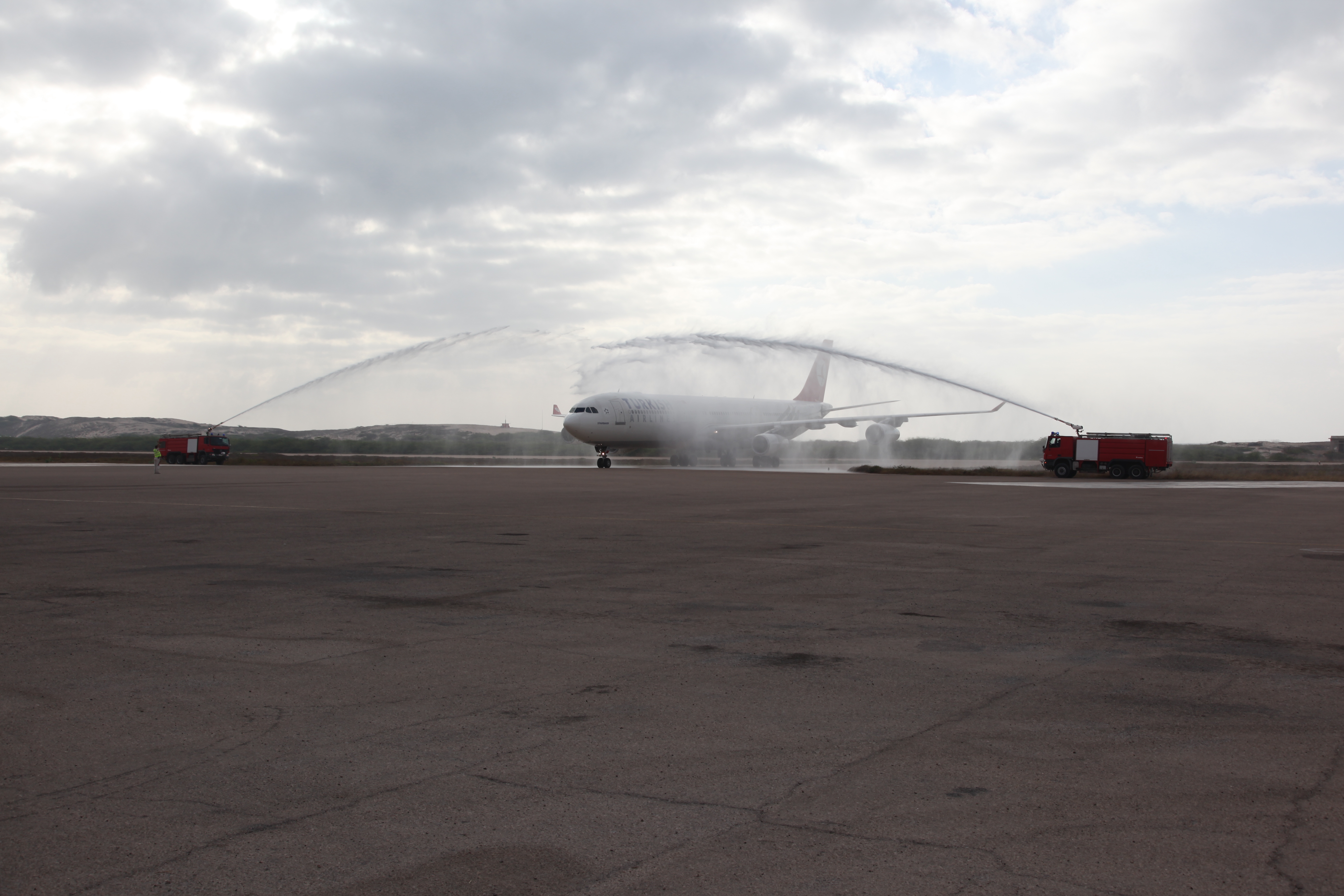 The first international commercial airline company to fly long distance to Somalia landed in the capital Mogadishu on its maiden flight 6 March. The Turkish Airlines flight carried Deputy Prime Minister Bekir Bosdag and a high level delegation from Ankara and was welcomed on the tarmac of Aden Abdulle International Airport by Somali President Sharif Sheikh Ahmed. AU-UN IST PHOTO / Capt. STEPHEN MUGABI.